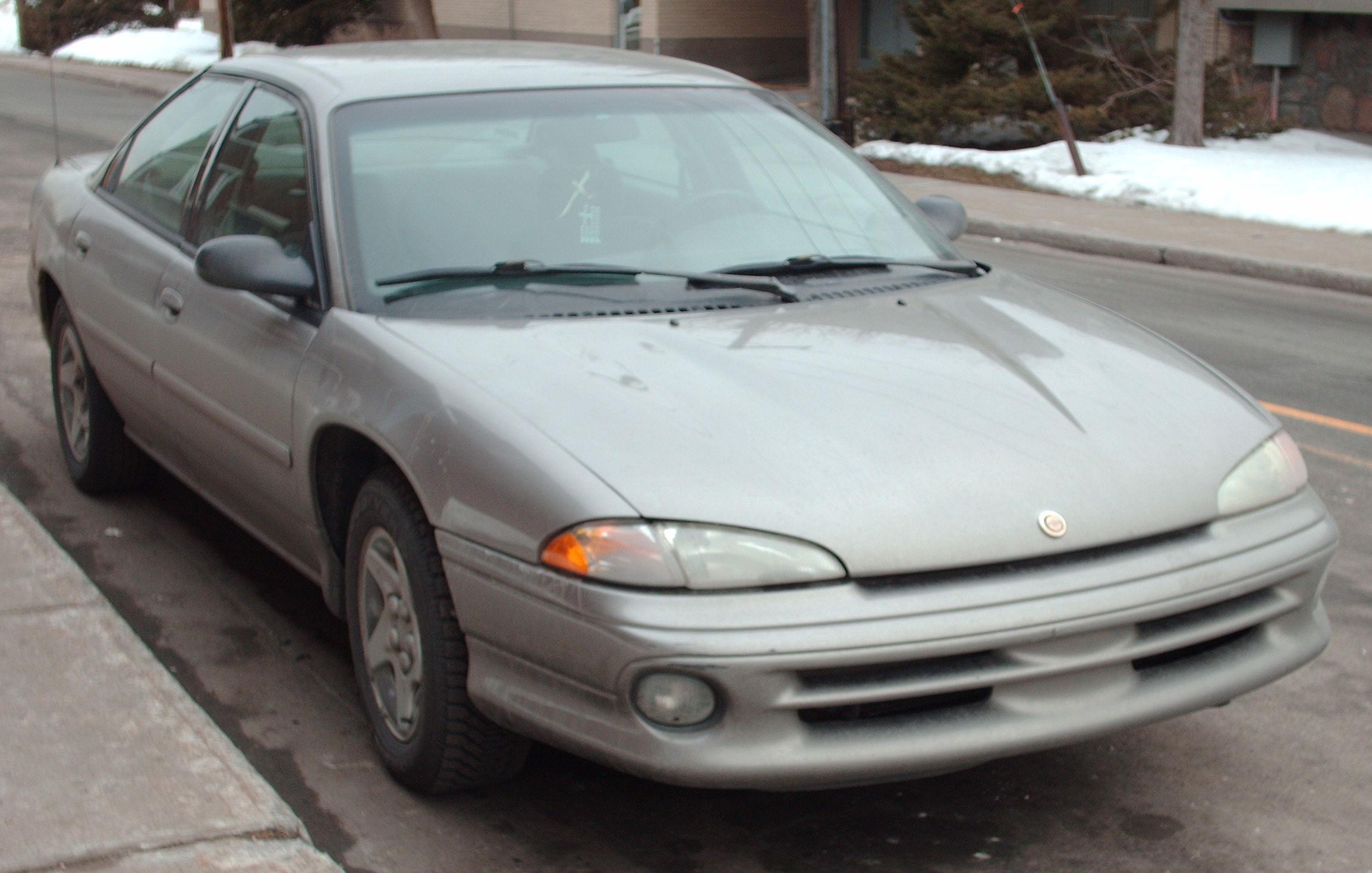 1995-1997 Chrysler Intrepid photographed in Montreal, Quebec, Canada.